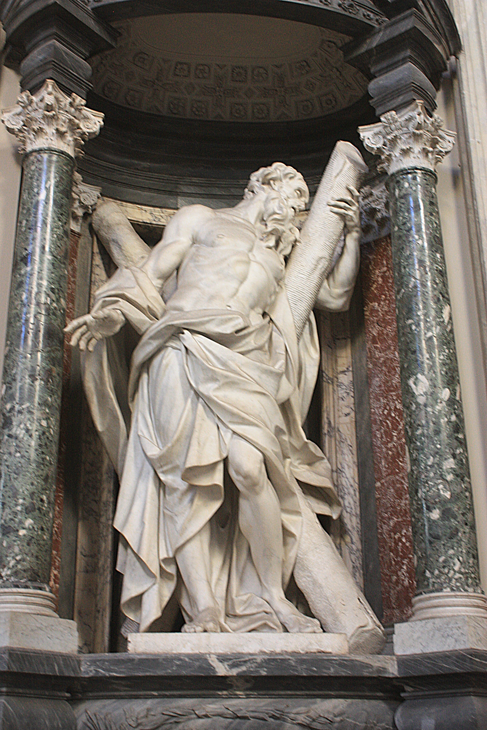 Rome, San Giovanni in Laterano, statue of Saint Andrew